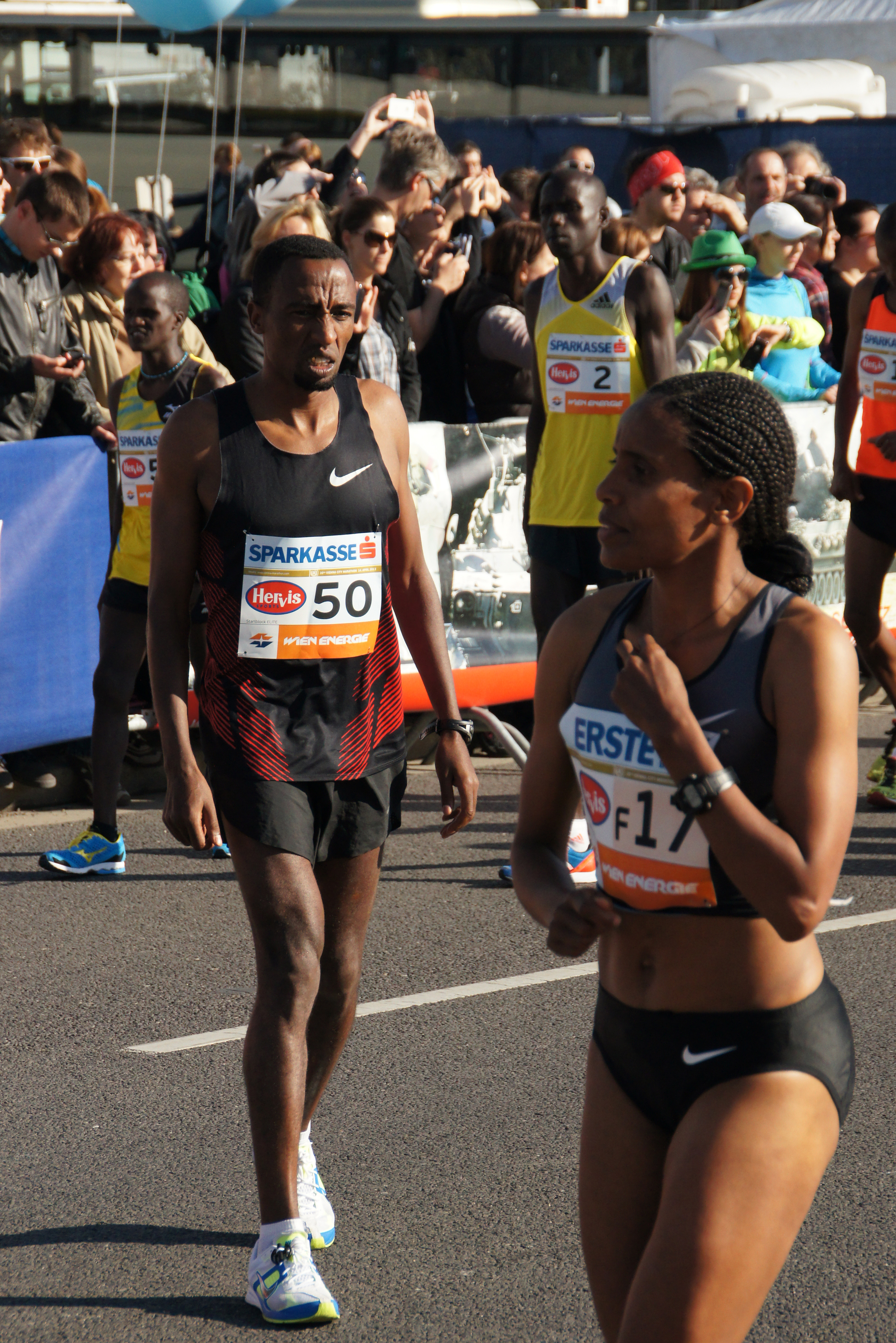 Vienna 2013-04-14 Vienna City Marathon - Nrs 50, Kasime Adilo Roba, ETH, F17, Eyerusalem Kuma, ETH, preparing for race